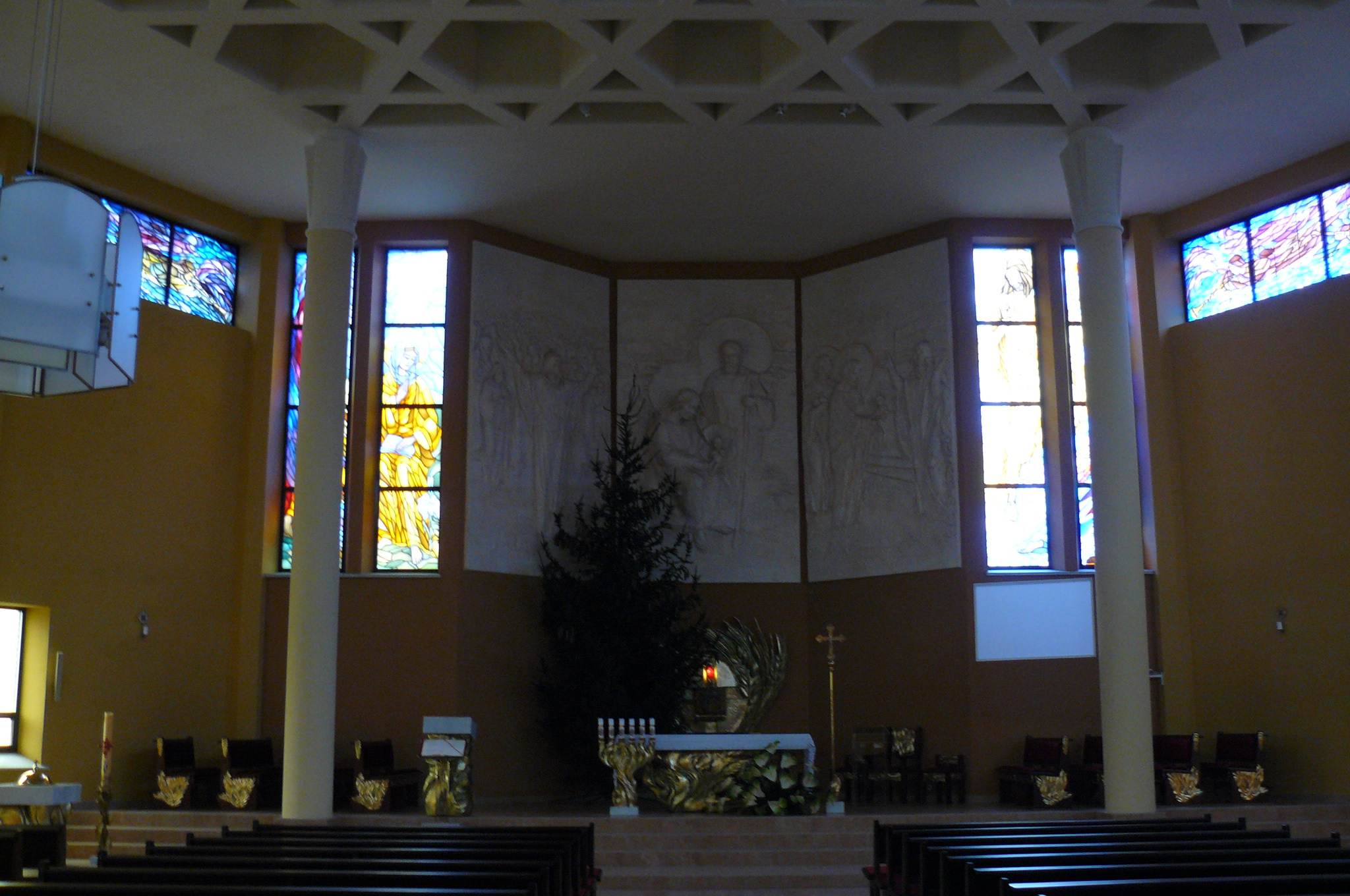 Church in Poznan-Batorego District.